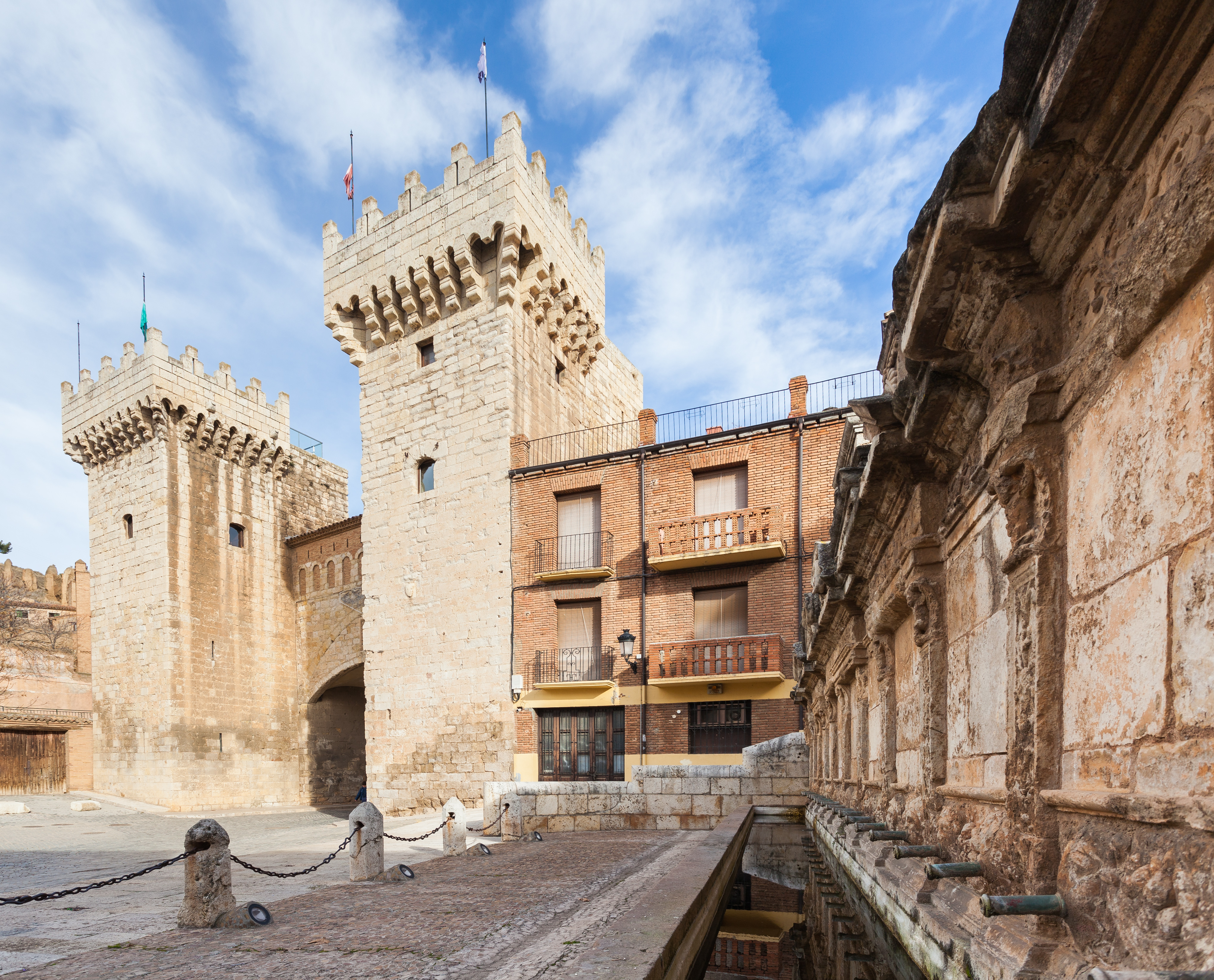 Low Gate, Daroca, Zaragoza, Spain